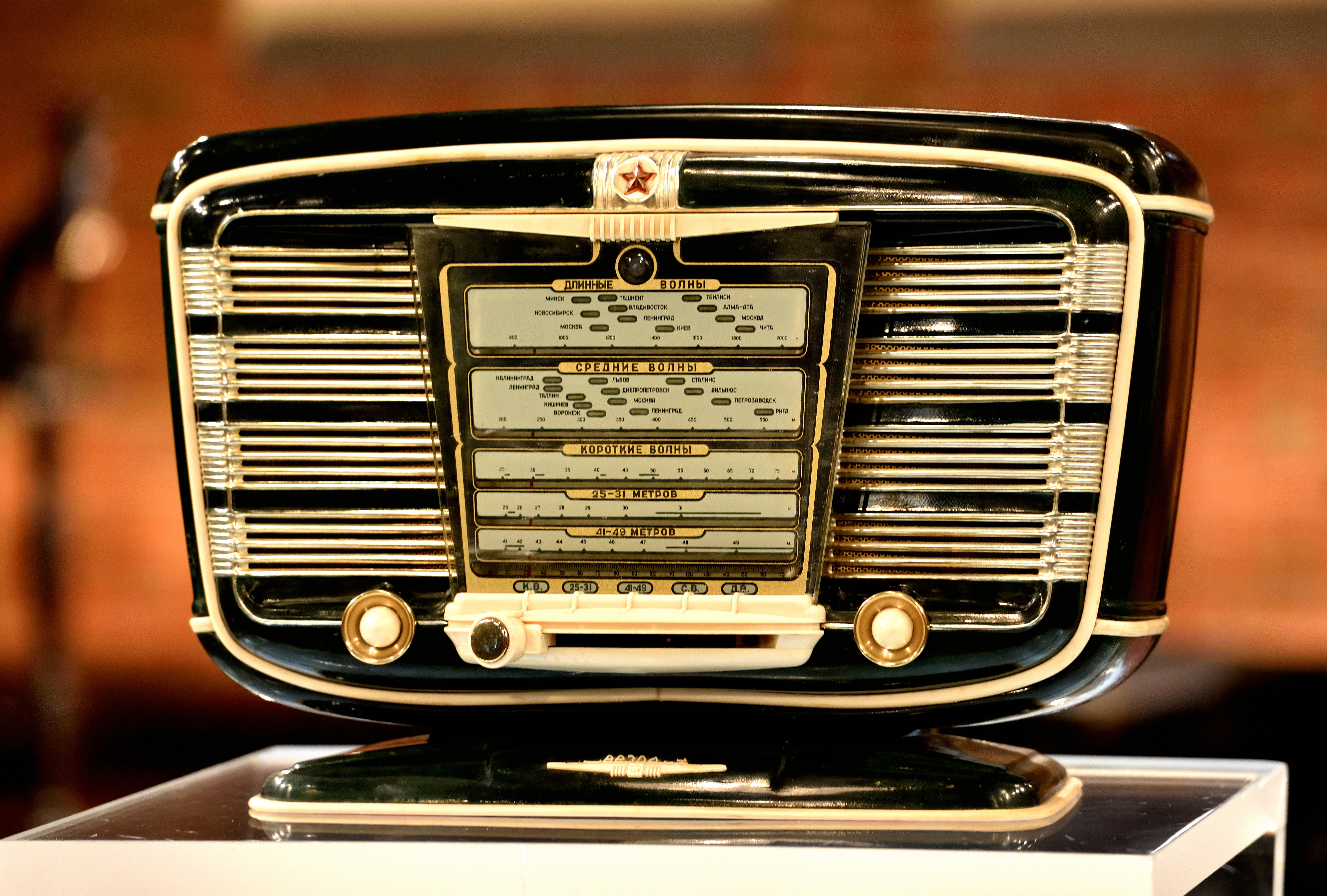 Zvezda-54 tube radio, USSR, 1954/55